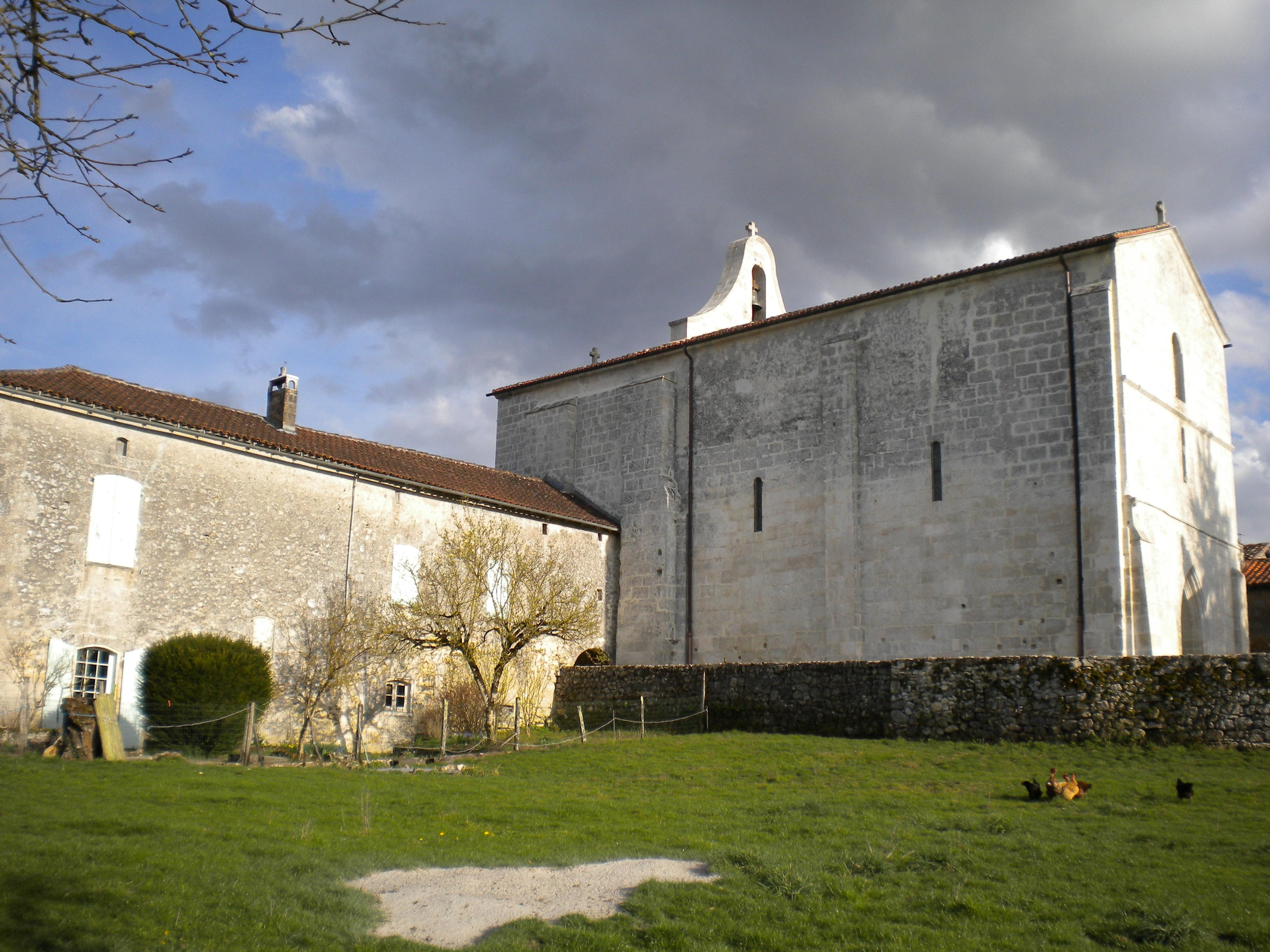 The 11th century village church Sainte-Marie in Bourg-des-Maisons, Dordogne, France.